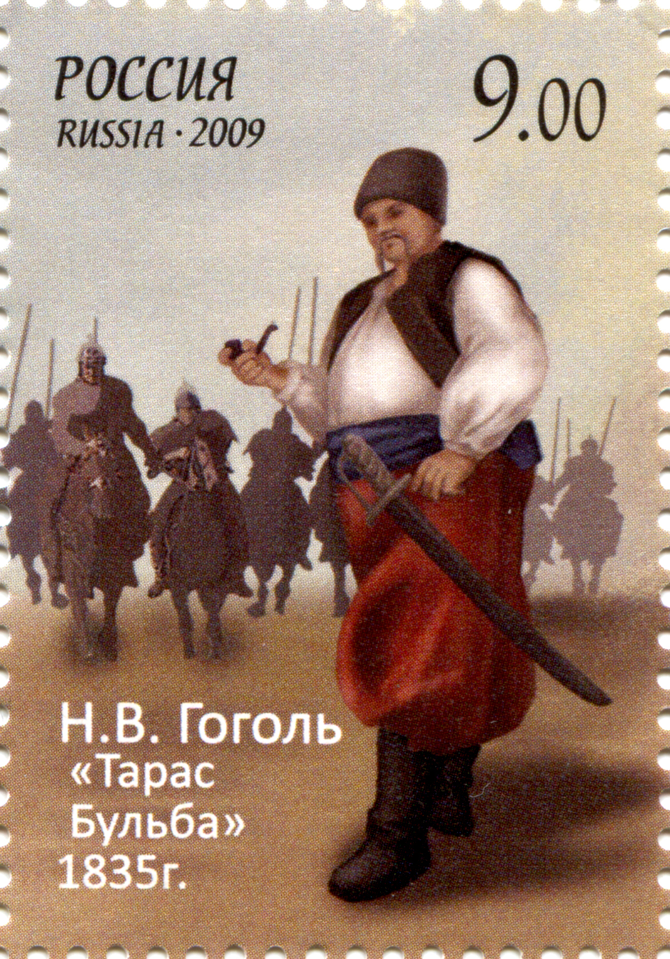 A stamp depicting Taras Bulba, from the souvenir sheet of Russia devoted to the 200th birth anniversary of Nikolay V. Gogol, 2009.